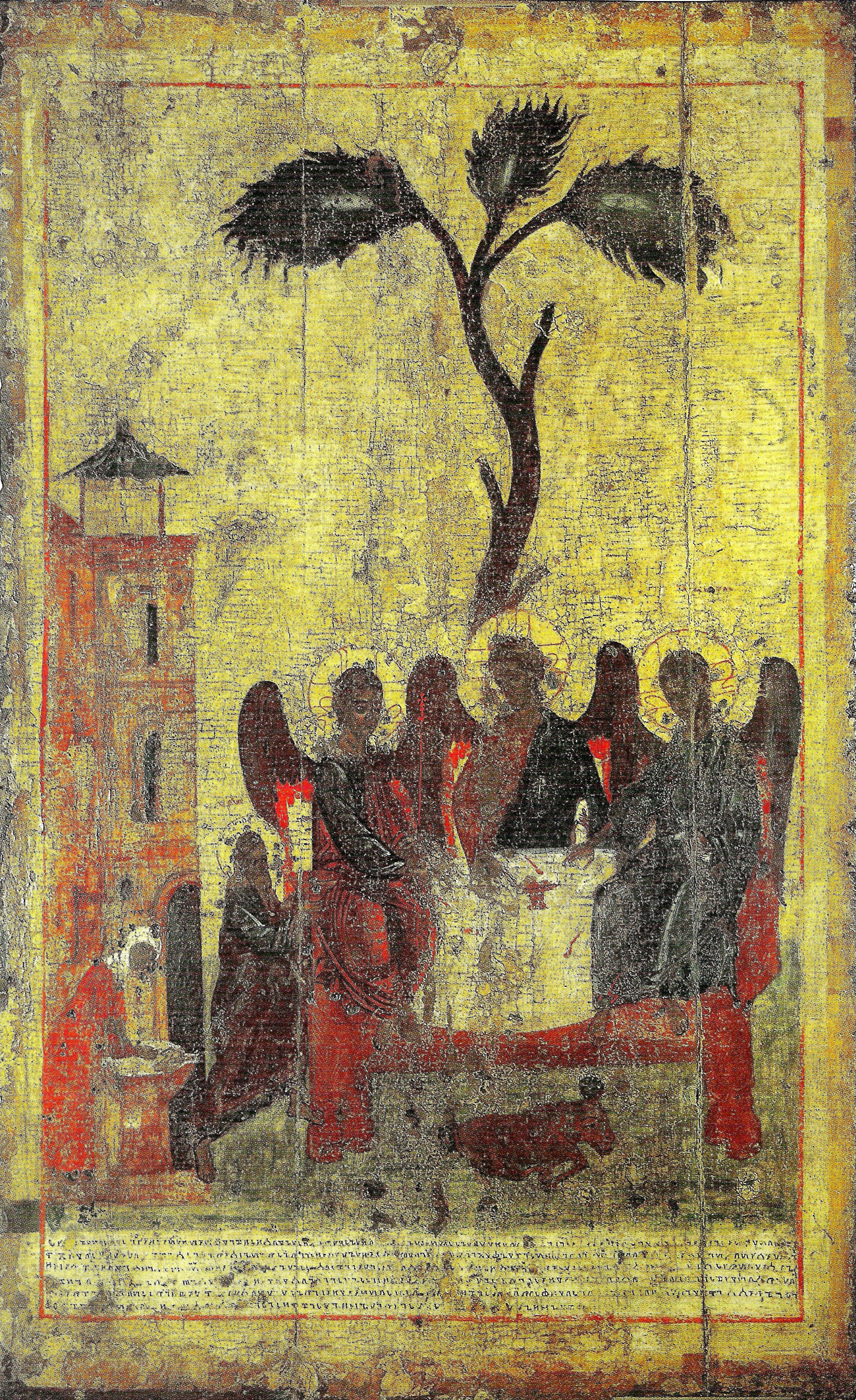 Holy Trinity Icon Ziryanskaya.